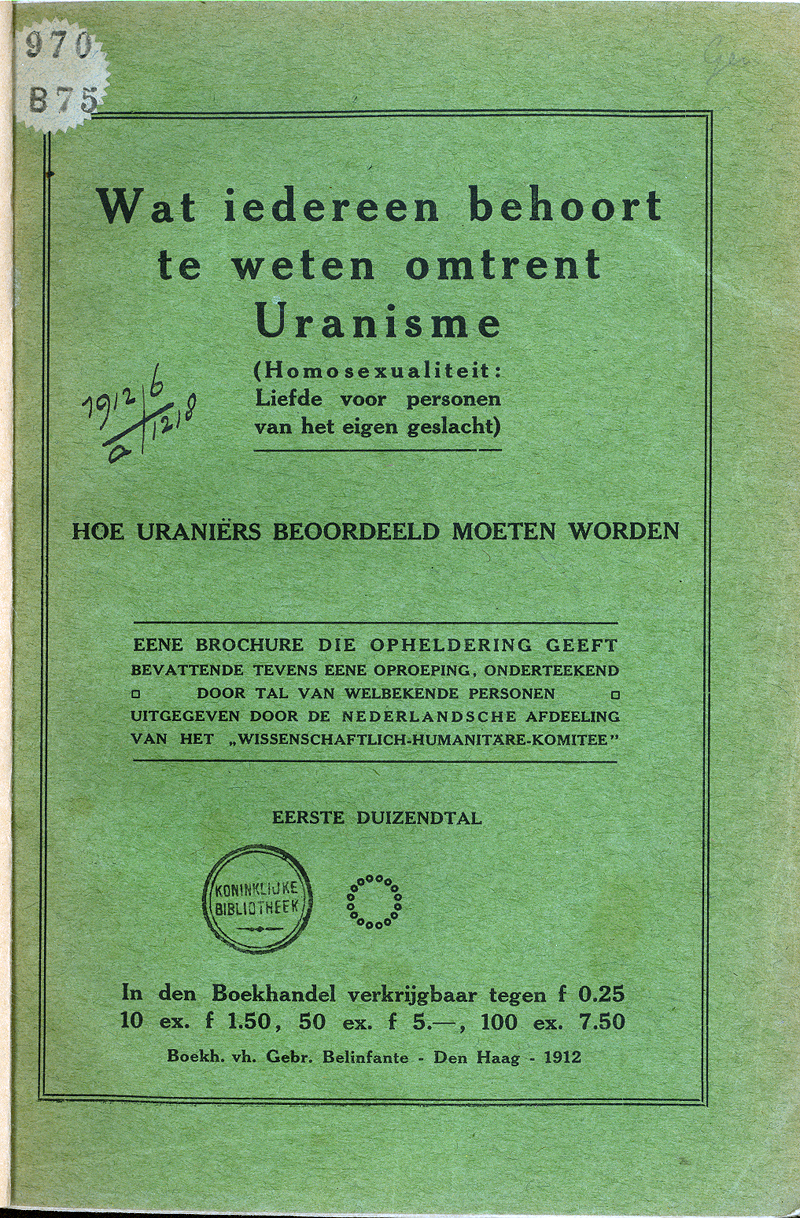 Cover of a booklet giving general information about the nature of Uranism, as homosexuality was called in those days. Published by the NWHK, the first Dutch gay rights organization, The Hague 1912.